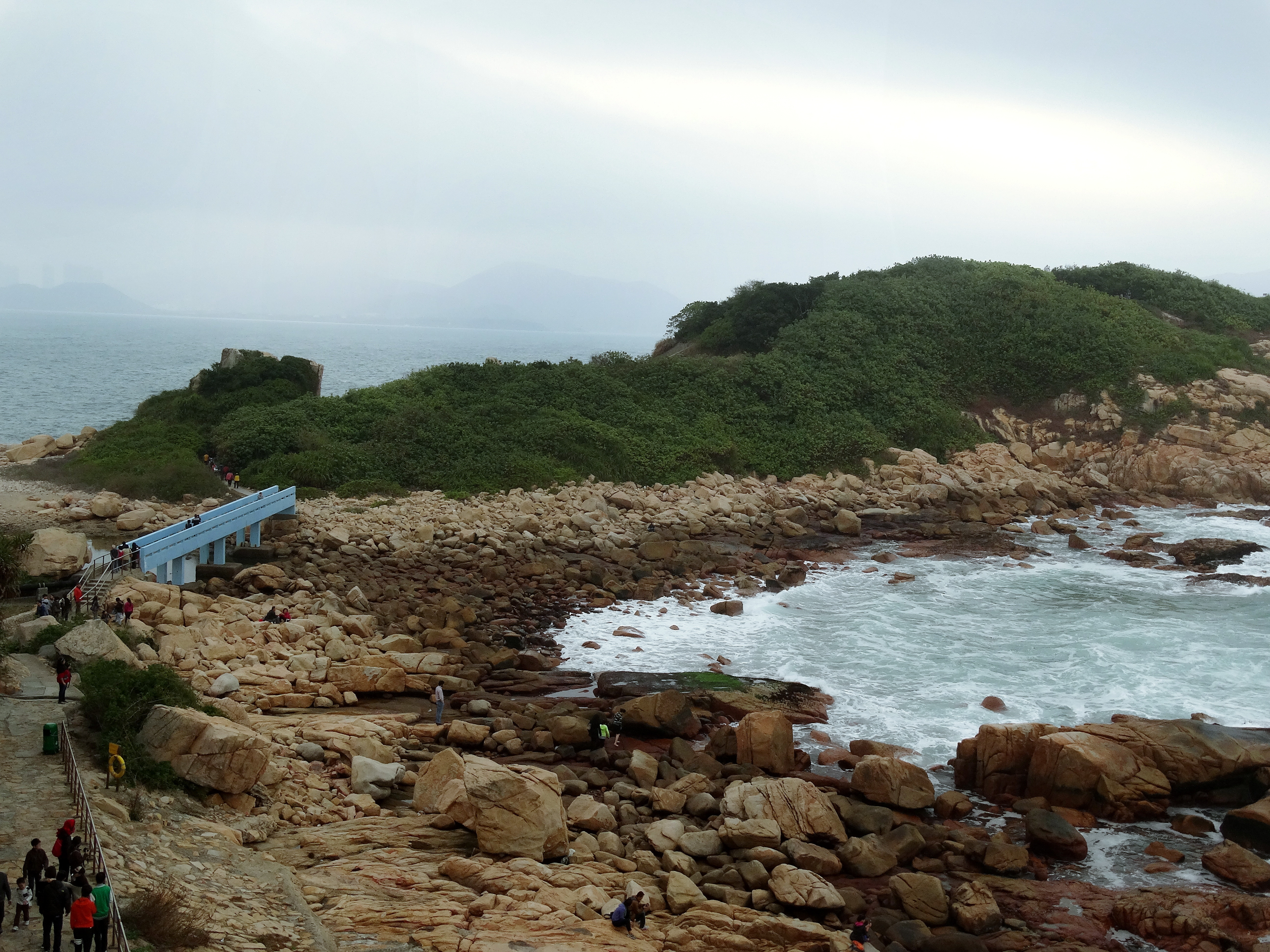 ，Shek OTai Tau Chau, Hong Kong.